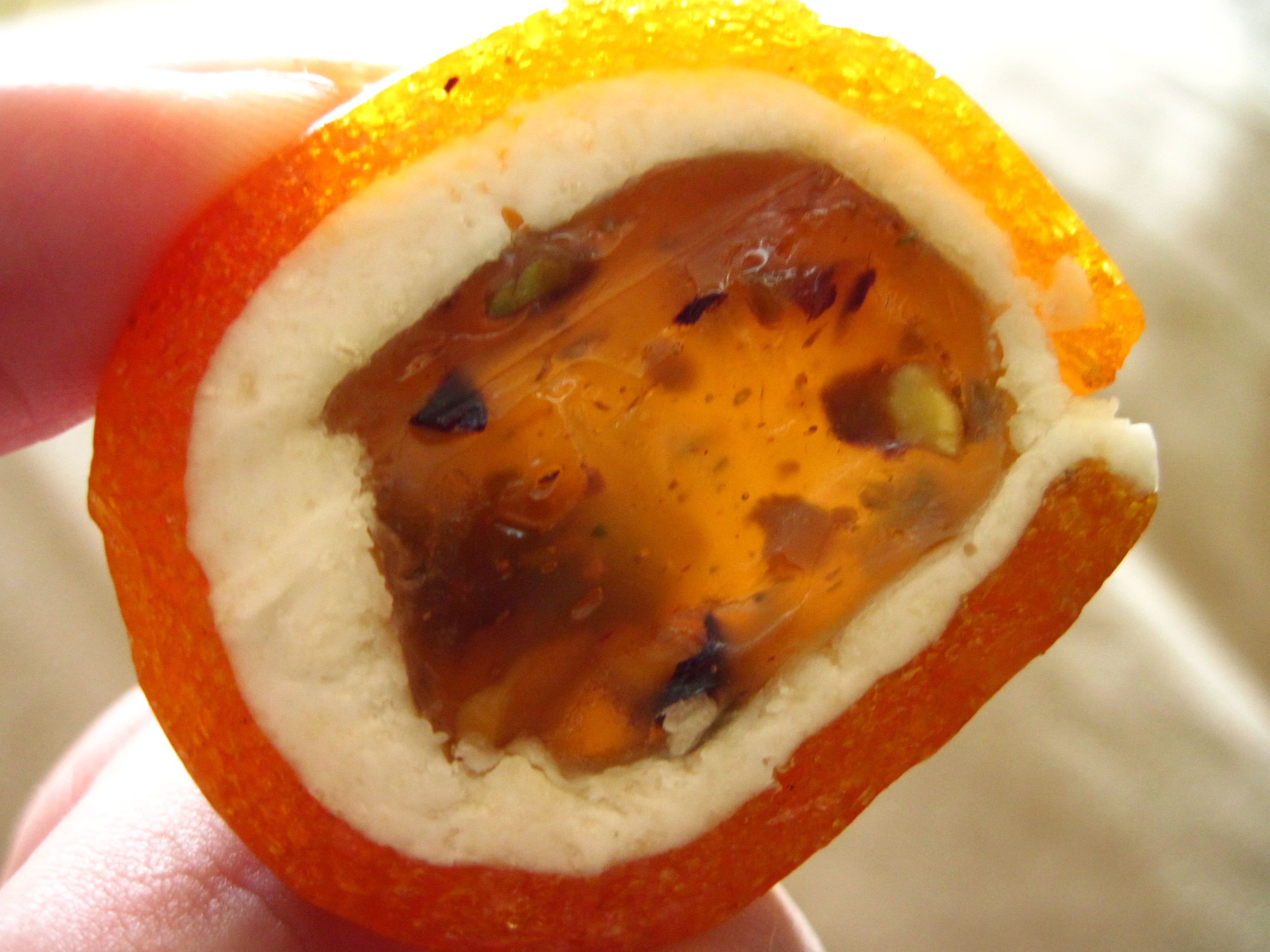 Turkish delight surrounded by layers of nougat and dried apricot, a confection from Egypt.